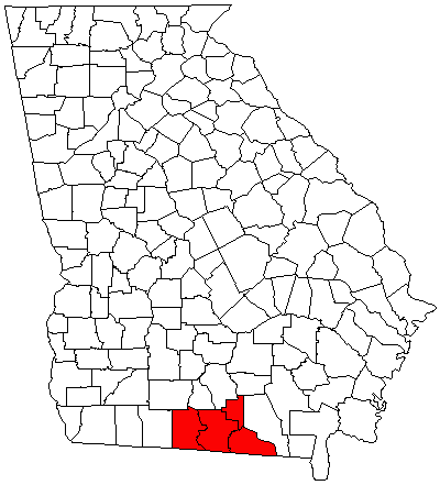 Map of Georgia highlighting the Valdosta Metropolitan Statistical Area; created with the GIMP. Made by User:Acntx.